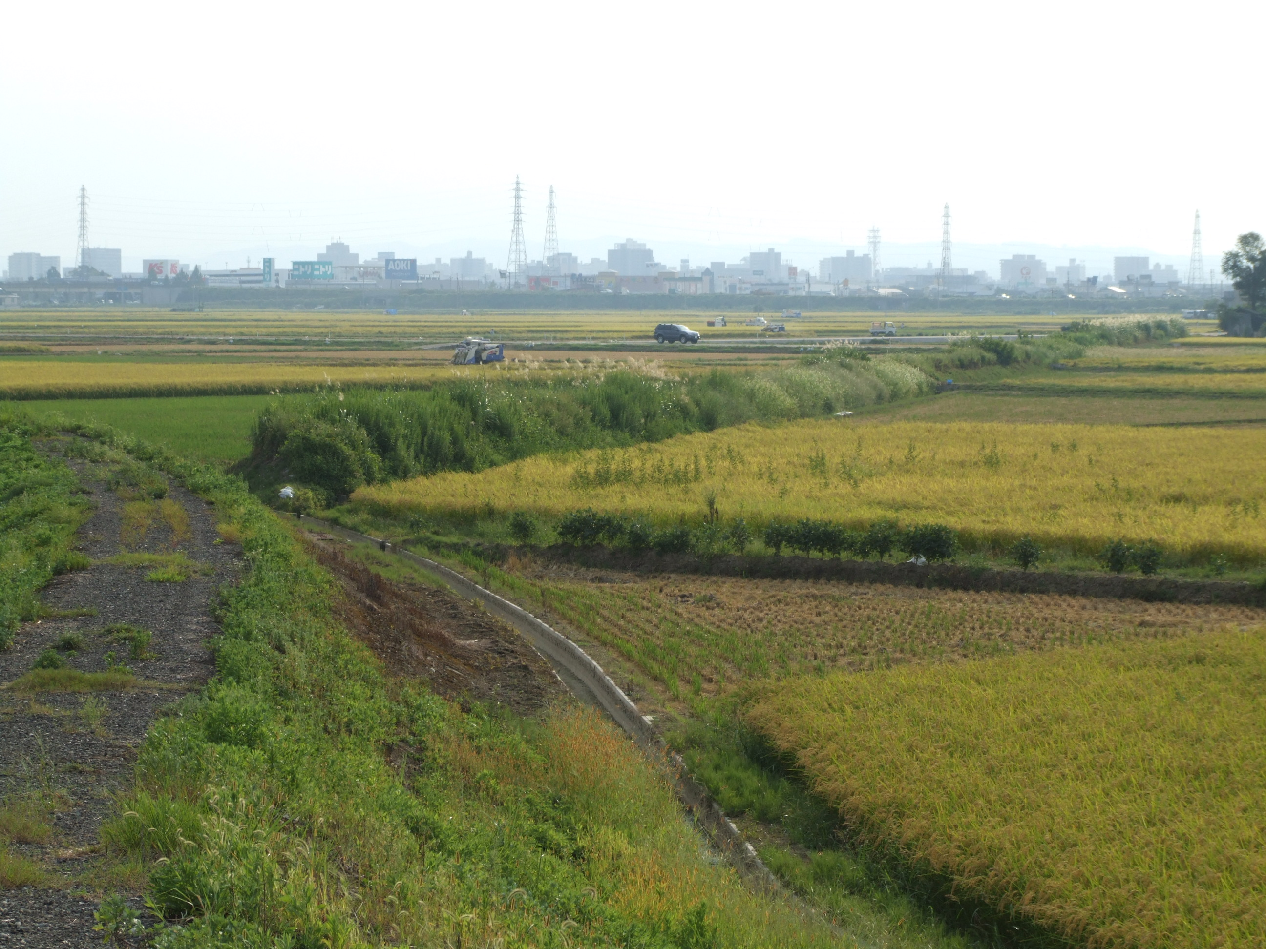 Remains of Miyashita Station Tochio Line in 2011